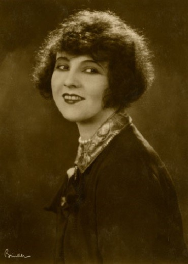 Lucy Doraine